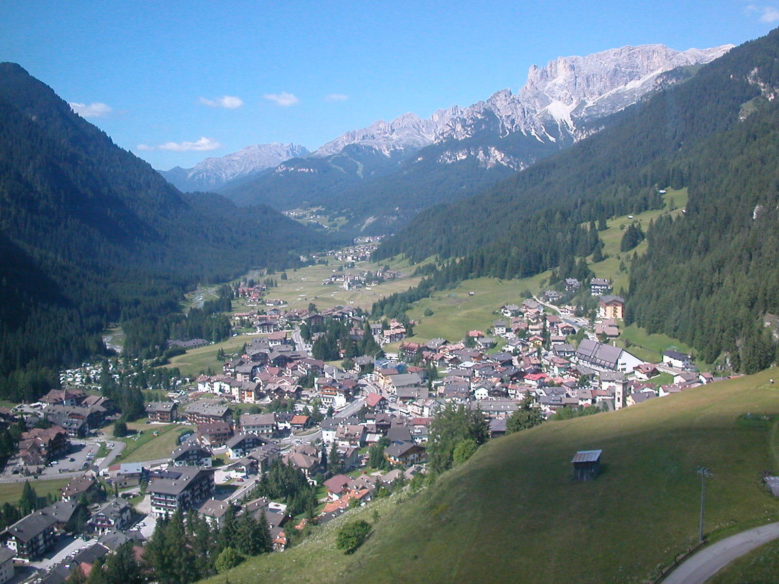 Campitello di Fassa, in the background the Latemar and the Rosengarten group